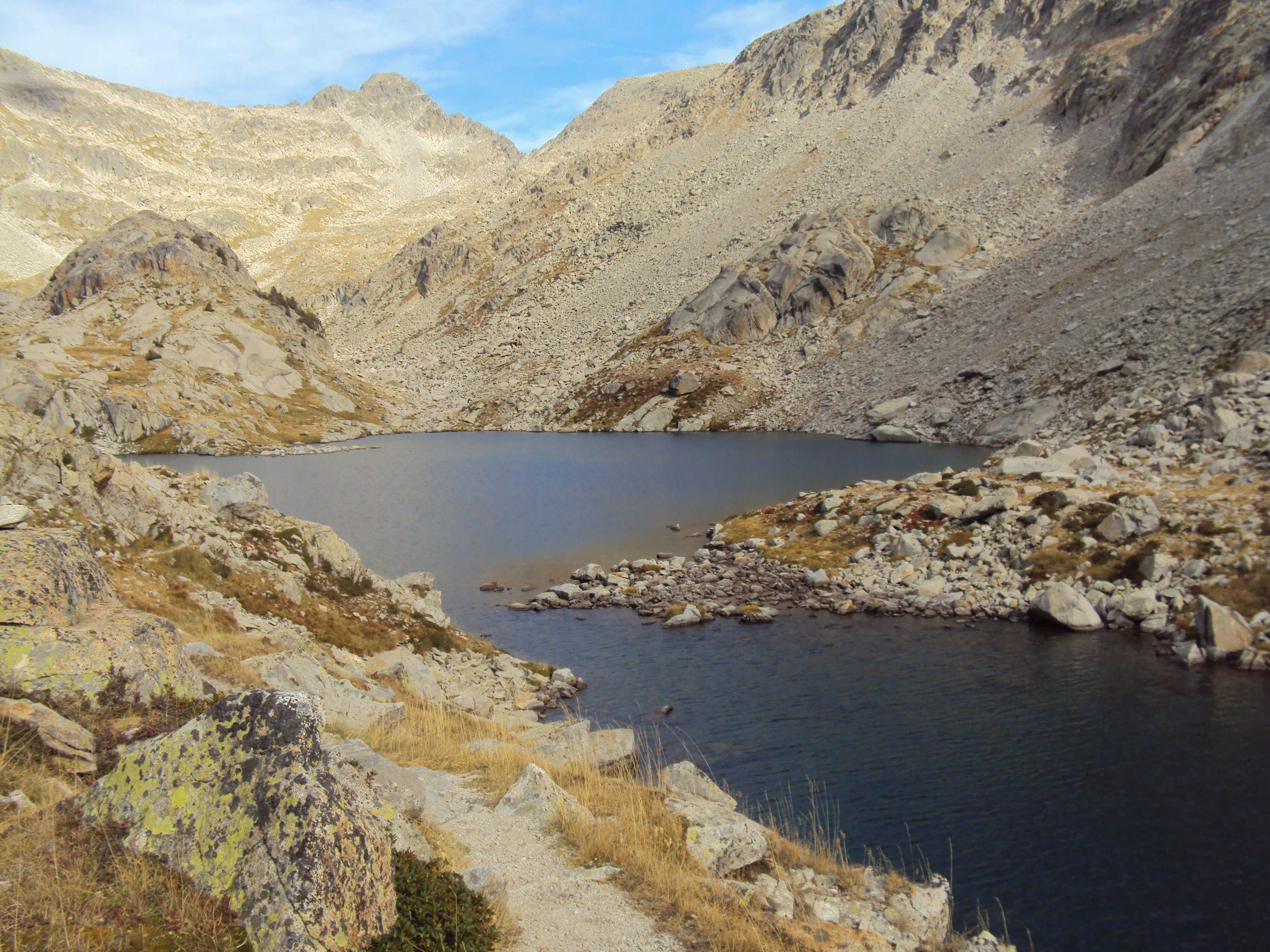 This is a photography of a Site of Community Importance in Spain with the ID: ES0000149. Natura2000 entry, EEA entry